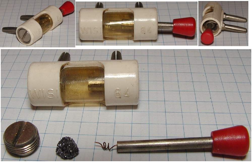 A crystal detector in commercial form from the 1960's. The whisker is a self-bent copper wire spring. It is placed in a ball joint to provide maximum mechanical flexibility. The crystal was found on a trip in the mountains. The background is a paper with a 5 mm raster. Own photography by PeterFrankfurt 15:44, 25 February 2007 (UTC)